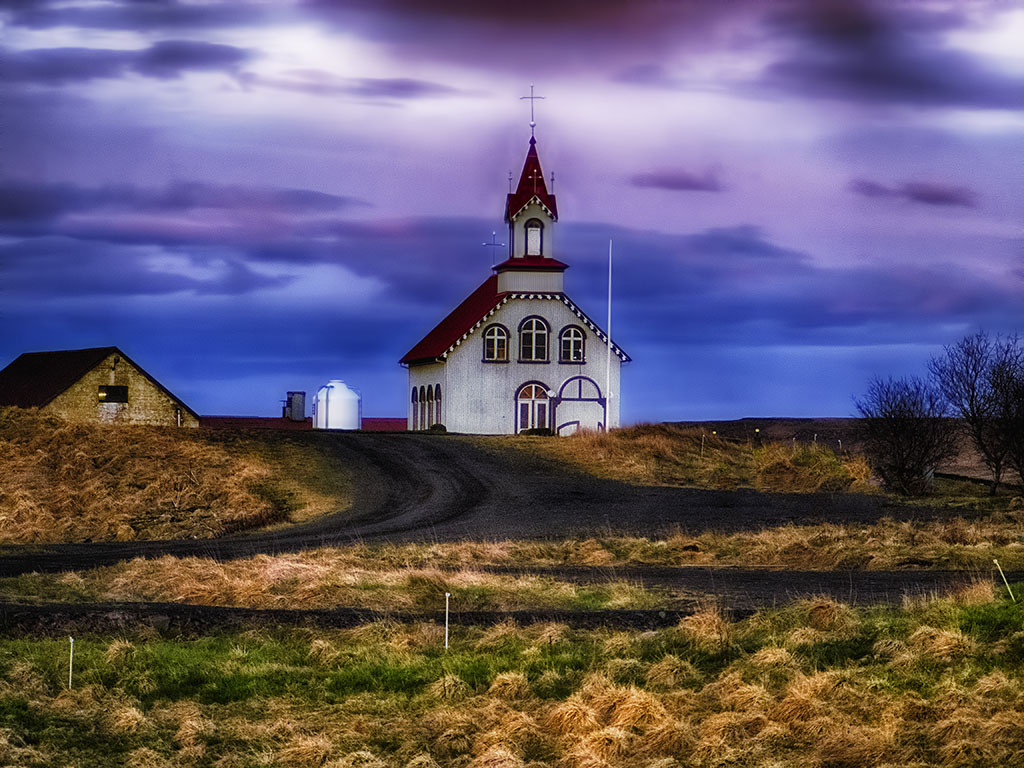 I rather like how this turned out after single raw HDR processing! Except... there are stange quasi-halos near the spire - how to best deal with them?